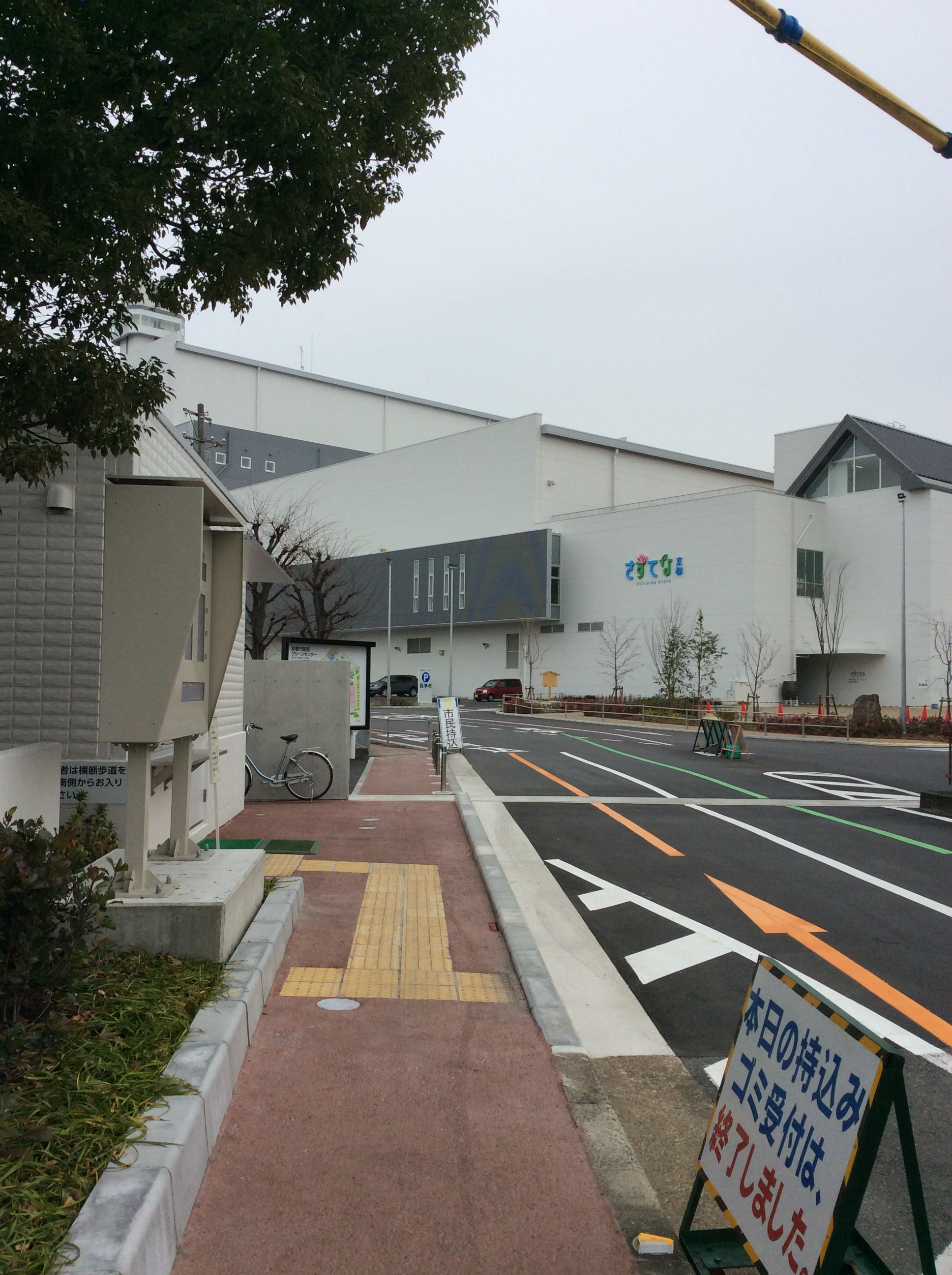 京都市南部クリーンセンター第二工場前